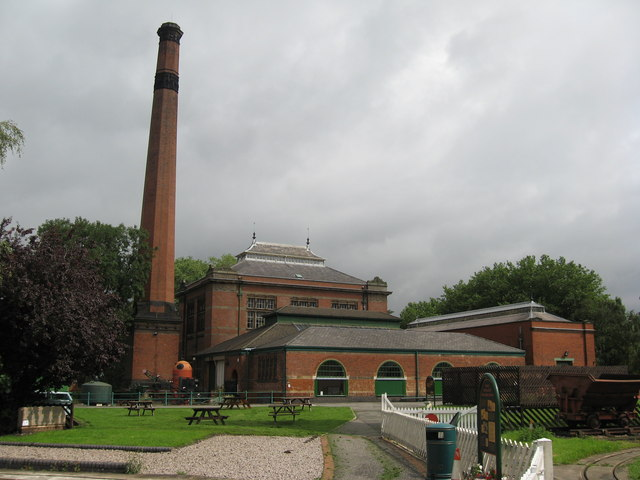 Abbey Pumping Station The museum was previously aThe Abbey Pumping Station in Leicester used to pump sewage to treatment works at Beaumont Leys, and was opened in 1891. The grand Victorian building, designed by Stockdale Harrison (city architect in 1890) and beautifully decorated beam engines were a cause of great civic pride. The four steam engines were built in Leicester by Gimson and Company and today are rare examples of Woolf compound rotative beam engines. It continued pumping Leicester's sewage until 1964, and then underwent renovation. It opened as a museum in 1972.